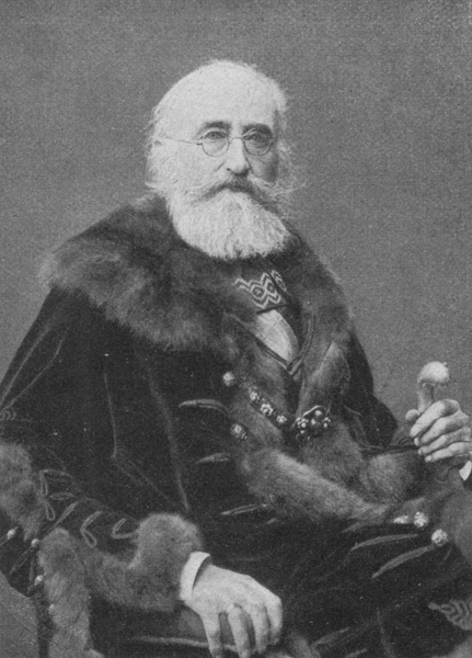 Kálmán Tisza de Borosjenő et Szeged (1830–1902), Hungarian politician, prime minister (1875–1890) and landowner.